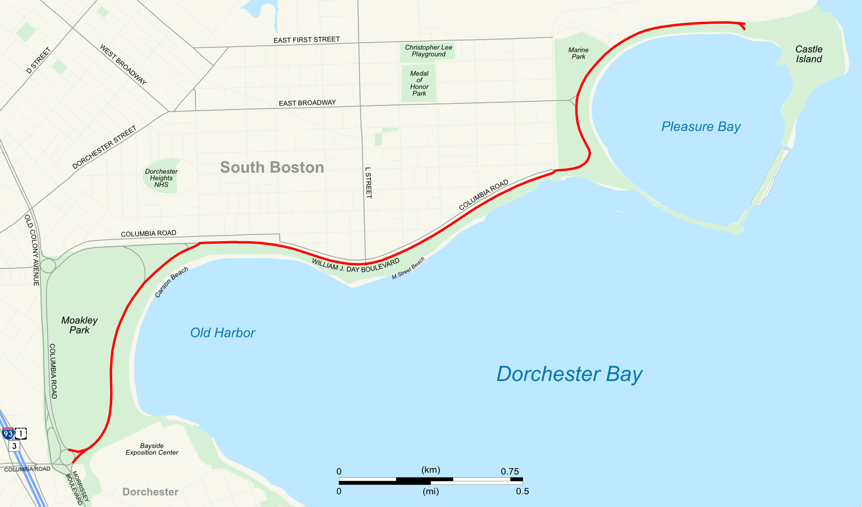 Map showing Day Boulevard, a parkway in Boston, Massachusetts, United States highlighting major local streets and highways, with Day Boulevard highlighted in red